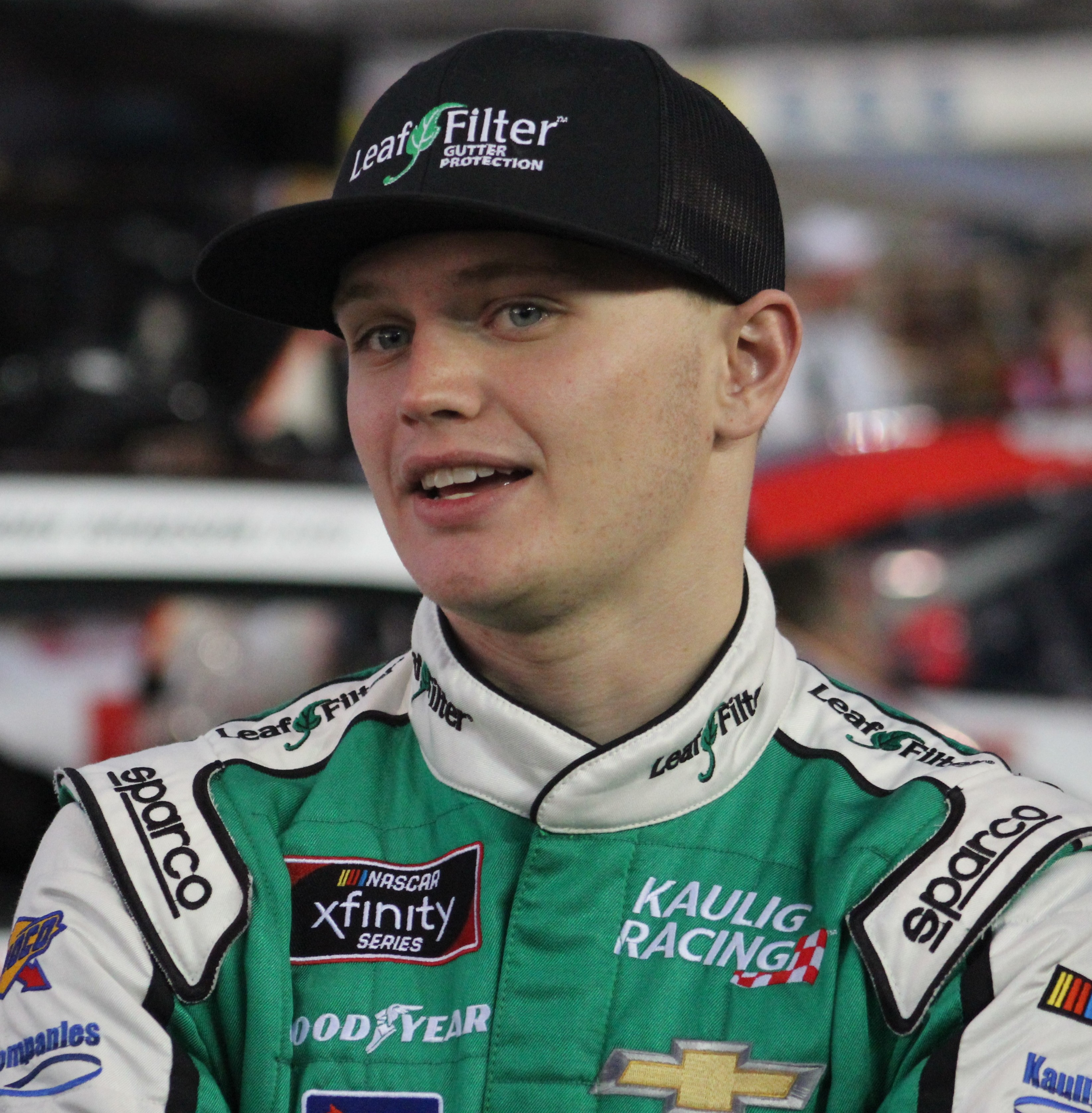 Justin Haley at Richmond Raceway in 2019